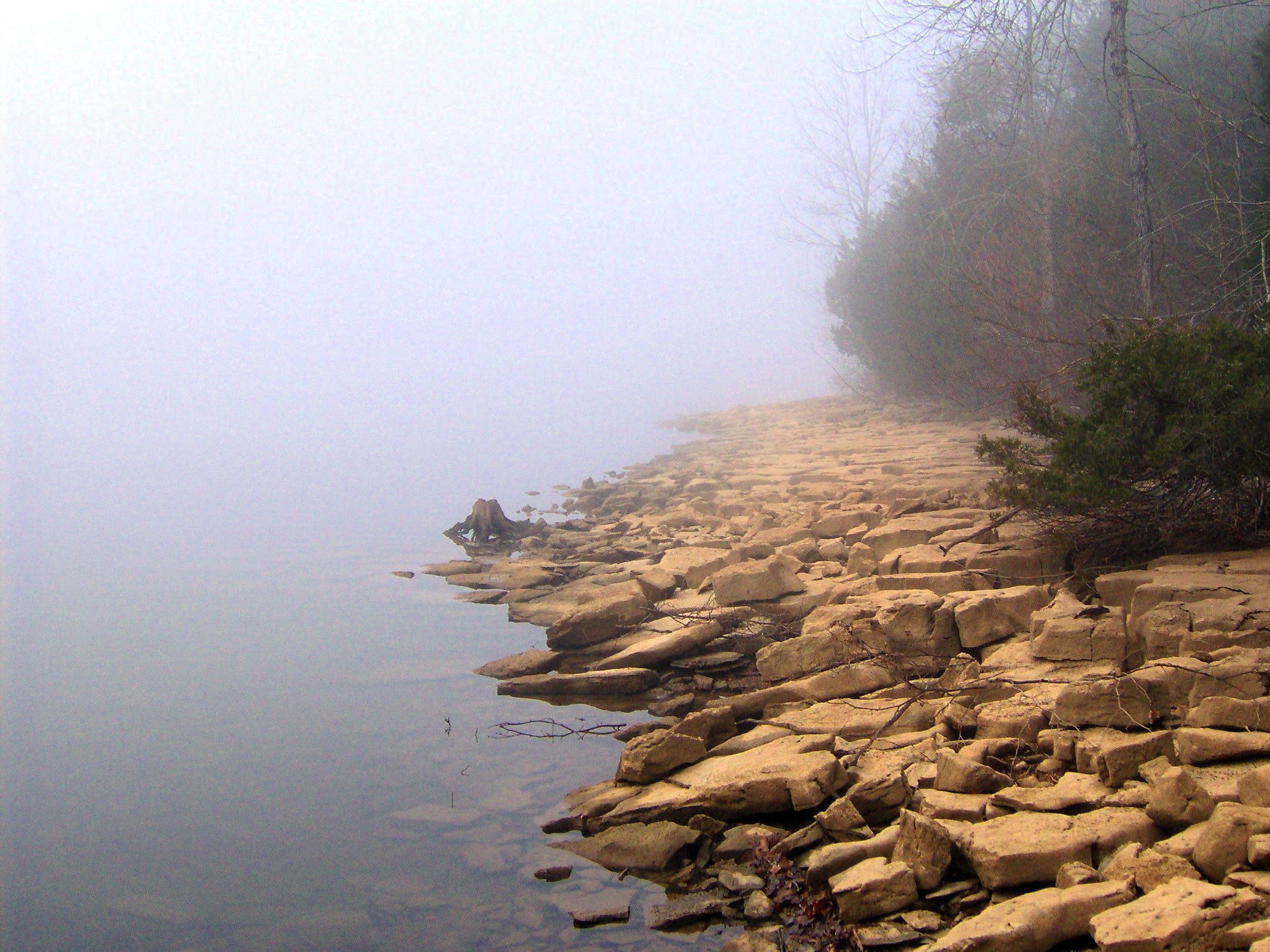 The shores of the J. Percy Priest Lake impoundment of Stones River near Nashville, Tennessee, located in the southeastern United States. This point can be accessed from the Volunteer Trail, just past the trail's second junction with the Day Loop Trail.